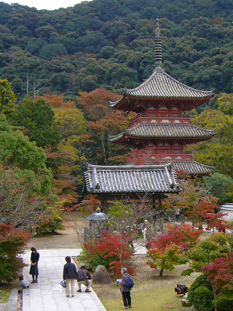 Taisanji Buddhist temple in Kobe, Hyogo prefecture, Japan Opening in 716. This photograph is the Pagoda. It was built in 1688.